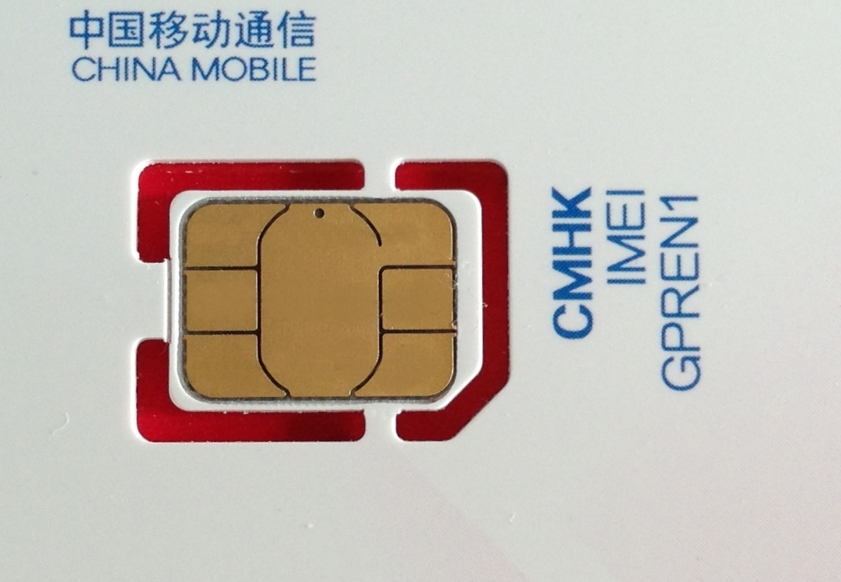 CMHK's Nano SIM